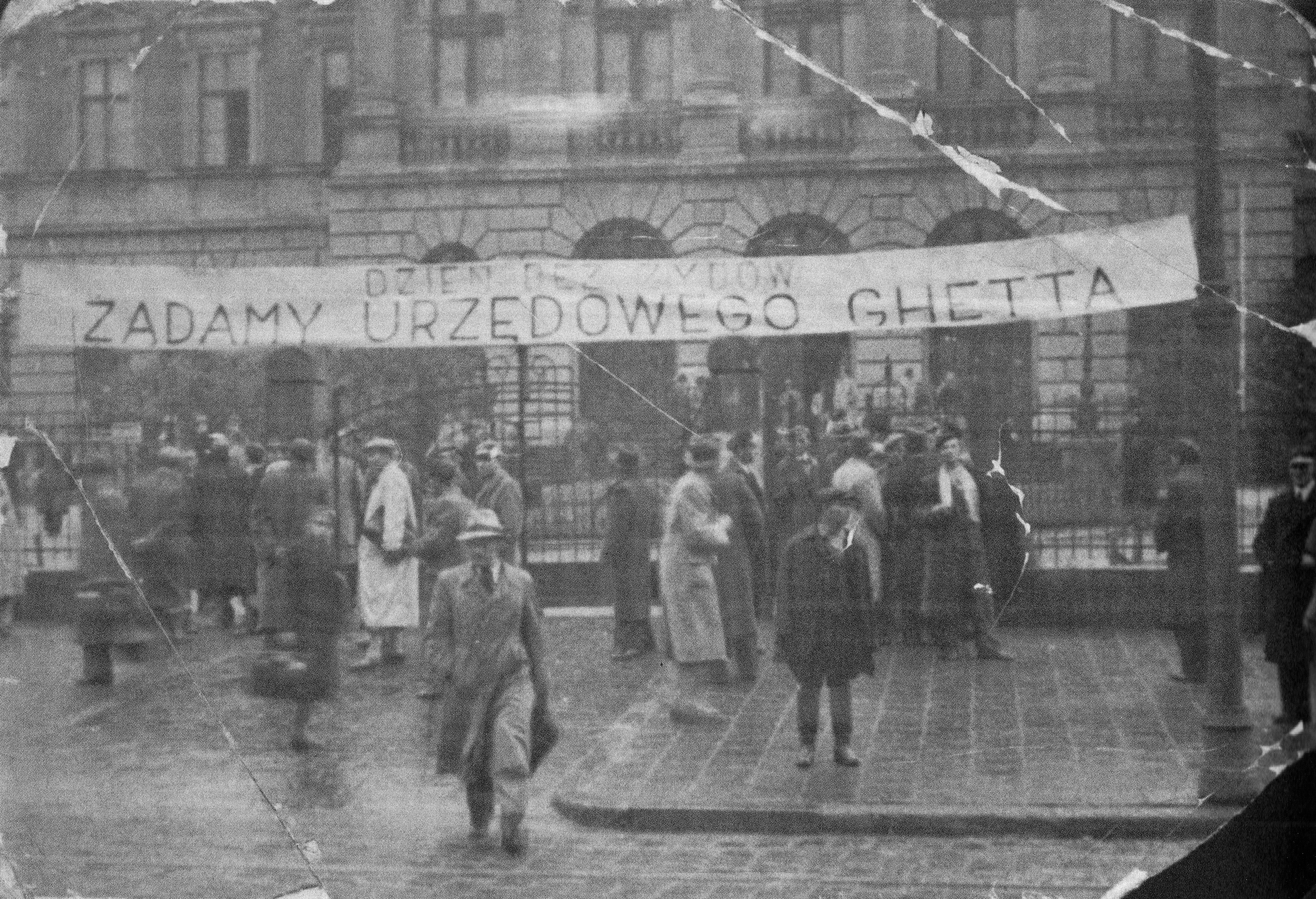 Demonstration of Polish students, members of National Radical Camp, demanding implementation of ghetto benches at Lwów Polytechnic.